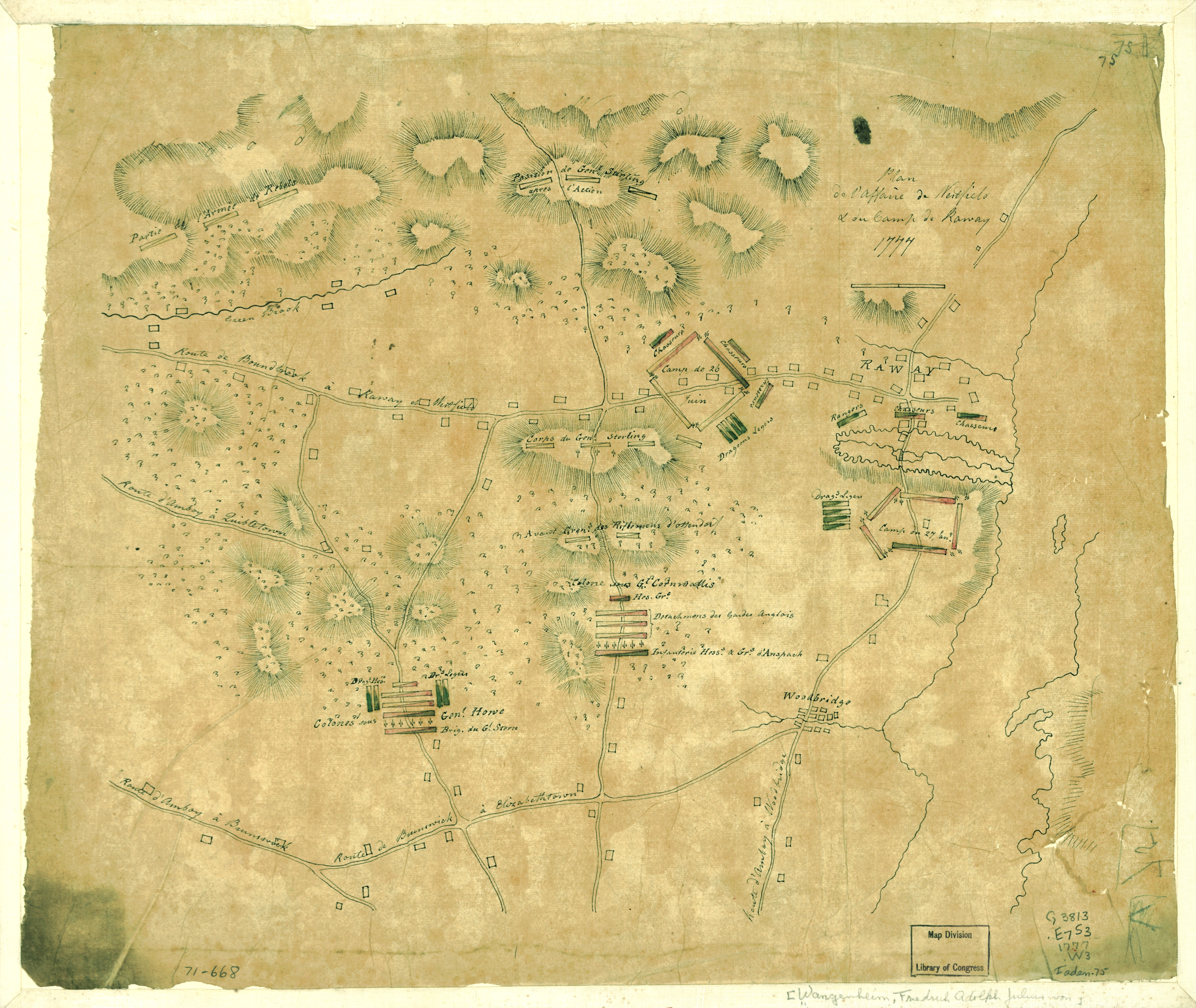 A contemporary Hessian map depicting the positions in the Battle of Short Hills.